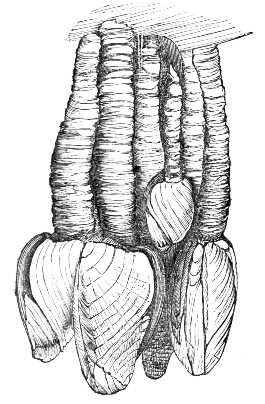 Common ship barnacles